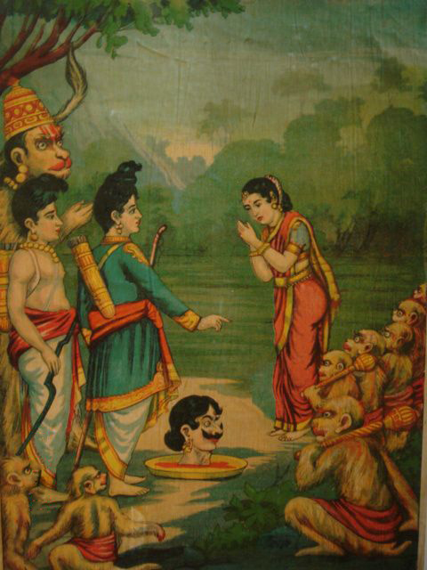 Ravana's virtuous daughter-in-law Sulochana receives the head of her husband Indrajit, who has been killed by Rama (bazaar art, 1910's)